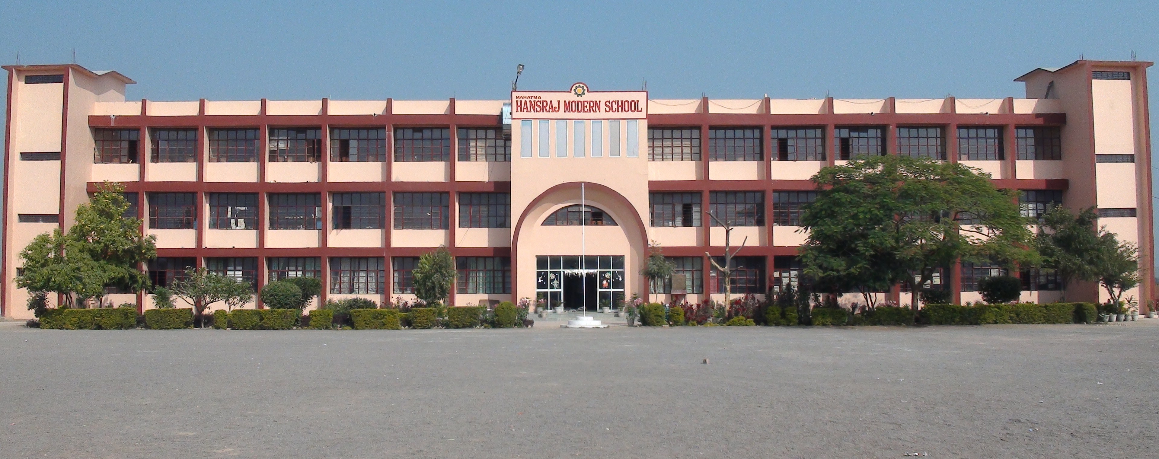 Mahatma Hansraj Modern School